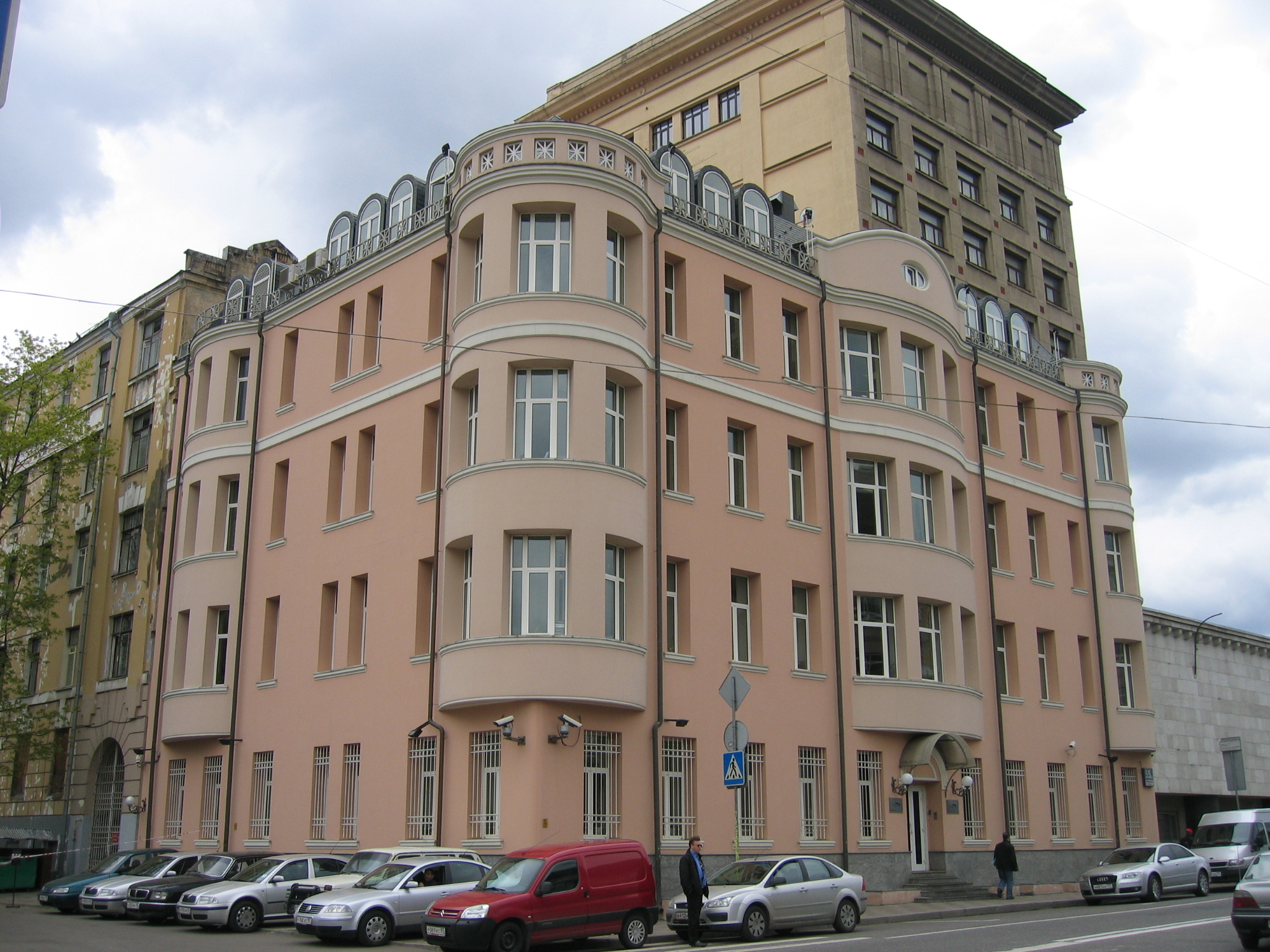 Svyazinvest head office, Moscow